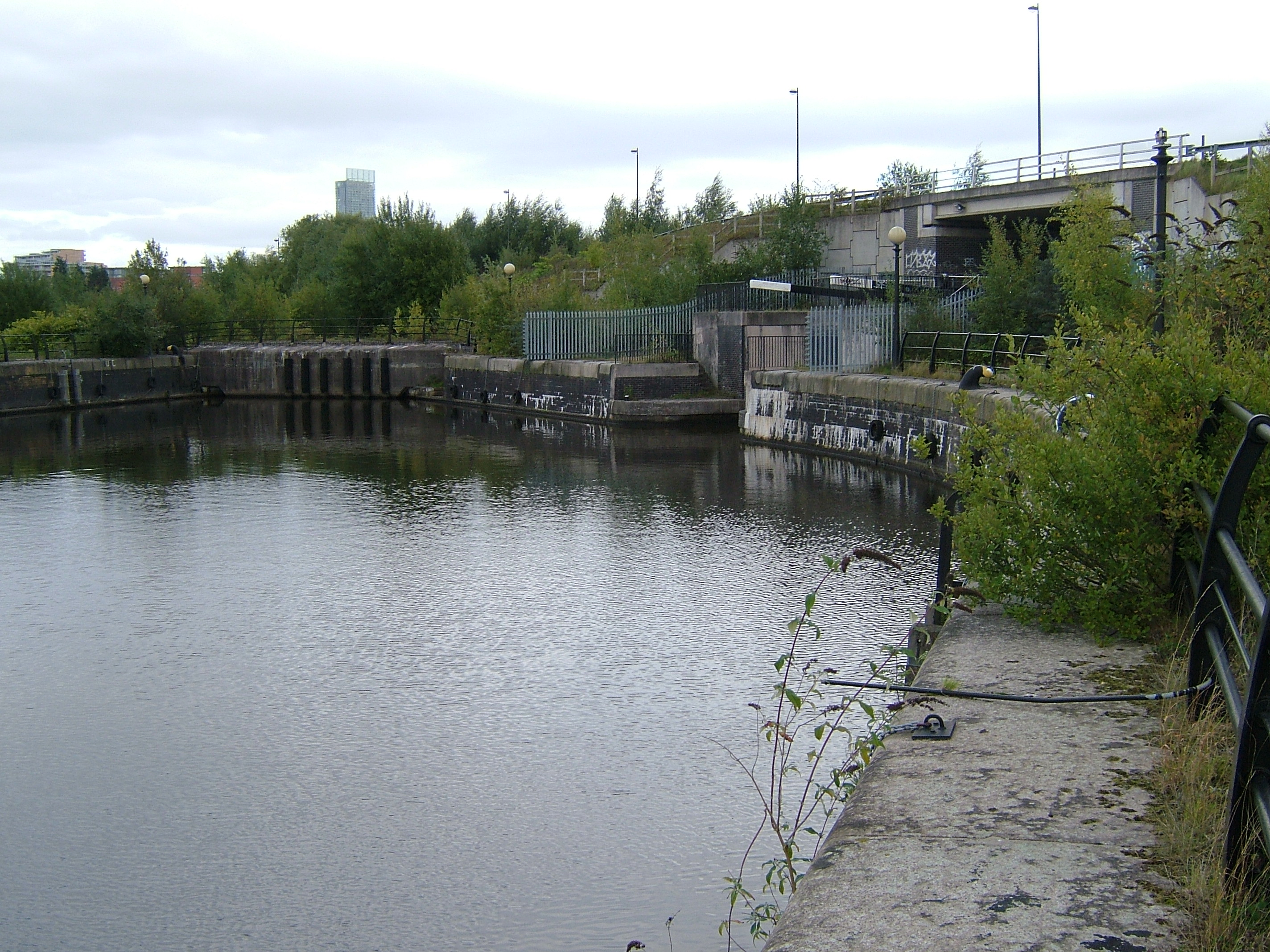 The Manchester Metrolink Eccles line crosses the Manchester Ship Canal at Pomona. The Bridgewater Canal is linked to the ship canal through Dock No.3.